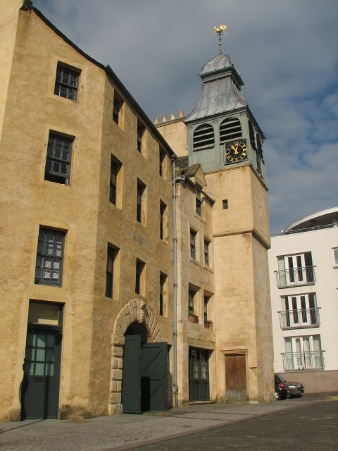 St Ninian's Manse. Incorporates part of 17th-century North Leith parish Church (St Ninian's) and manse. Later a mill and granary. Restored on behalf of the Cockburn Conservation Trust by Simpson and Brown Architects who have their offices within the building. This building stood close to the first bridge to cross the river at Leith and, as such, would have been a common sight for people travelling to Edinburgh's northern neighbour. This is presumably why a clock is provided on the tower.